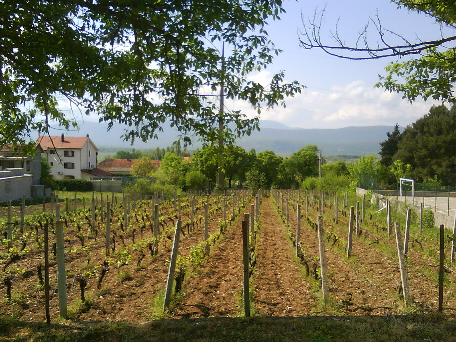 Vineyard in village Gorica, municipality of Grude